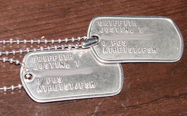 U.S. Army military identification tags ("dog tags") with religious/belief system designation: "Atheist/FSM." According to Griffith, "Atheist" was his serious response to the question of religious preference, but he added "FSM" - for The Church of the Flying Spaghetti Monster - as a subtle "rebellion" against the initial refusal of an Army rep making his dogtags to write "Atheist" on them. (Griffith had his own dog tags made -- acceptable to the Army because customized dog tags are allowed as long as they meet Army specifications.)